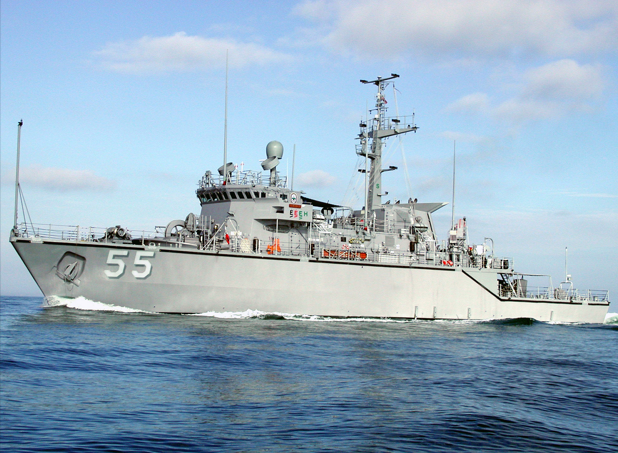 Port side view of the US Navy Osprey-class (minehunter coastal), USS Oriole (MHC-55), underway at sea.